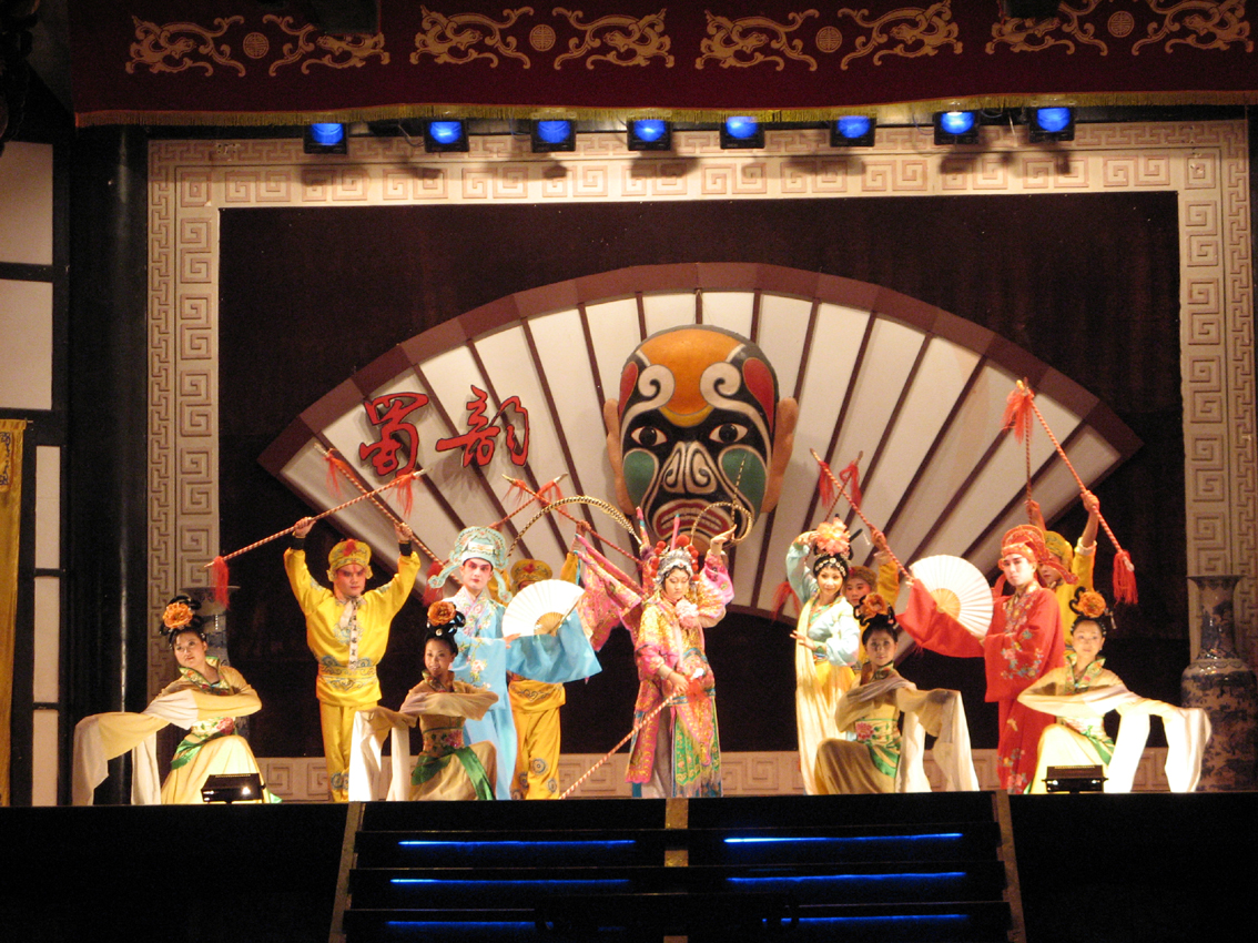 Sichuan Opera in Wuhou Temple Photo by Dice 2006.06.21